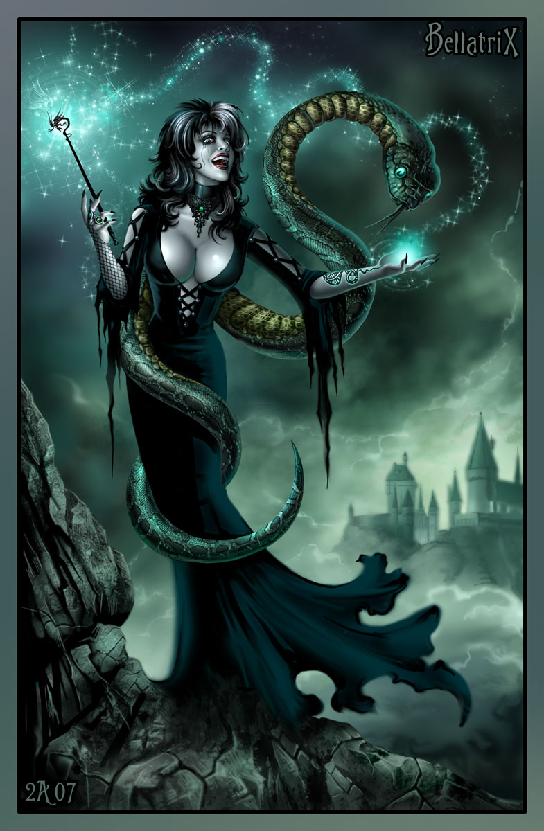 Bellatrix Lestrange, artwork by Candra.